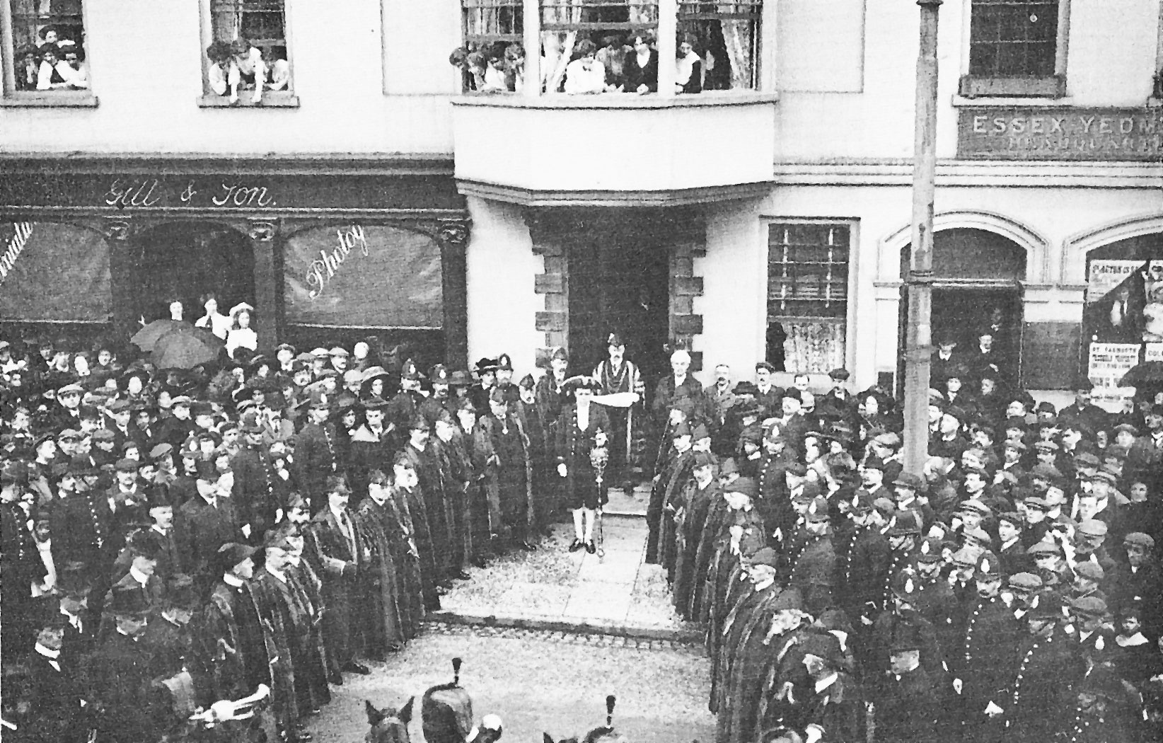 The proclamation of the accession of King George V of the United Kingdom in Colchester, 1911, showing mayor and corporation. The shop of the left was run run William Gill.